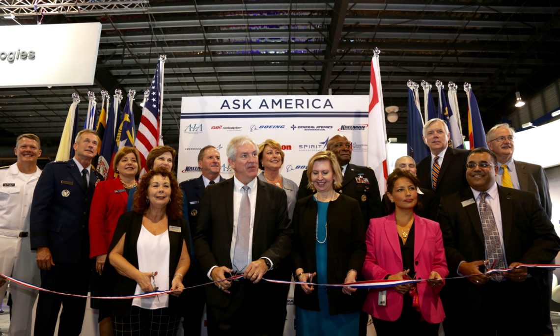 Chargé d’Affaires a.i. of U.S. Embassy Singapore, Stephanie Syptak-Ramnath kicked off the Singapore Airshow by cutting the ribbon at the U.S. Pavilion. She was joined by President & CEO of Kallman Worldwide, Tom Kallman; Under Secretary for Industry and Security, Bureau of Industry and Security, U.S. Department of Commerce, Mira Ricardel; Chief Operating Officer of Aerospace Industries Association, Robert Durbin; and many other distinguished visitors.